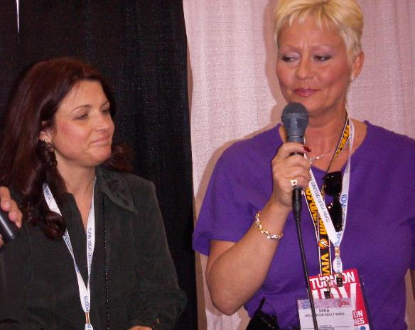 Laurie Holmes, Seka at Internext Pictures on Jan 4, 2005